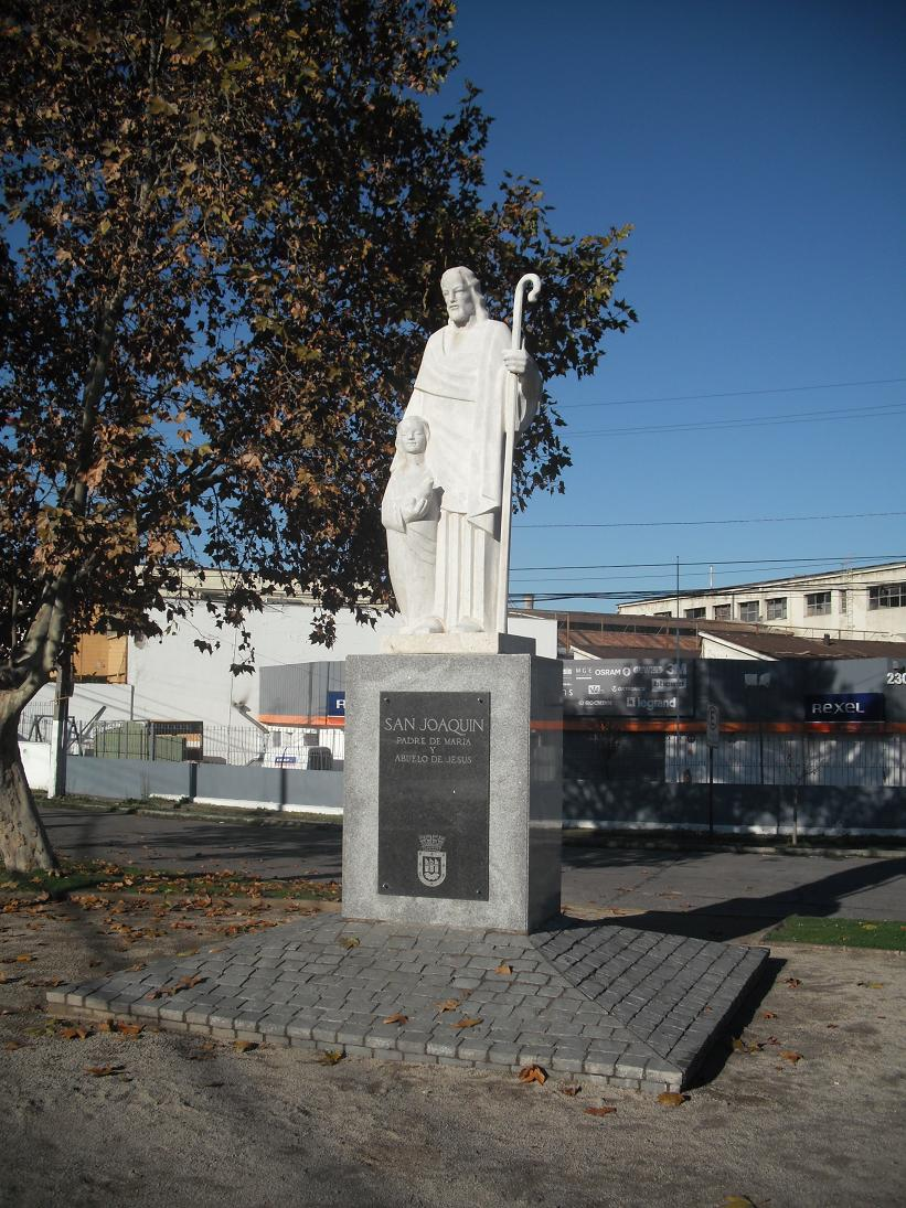 St Joaquin Statue, Sn Joaquin Santiago Chile